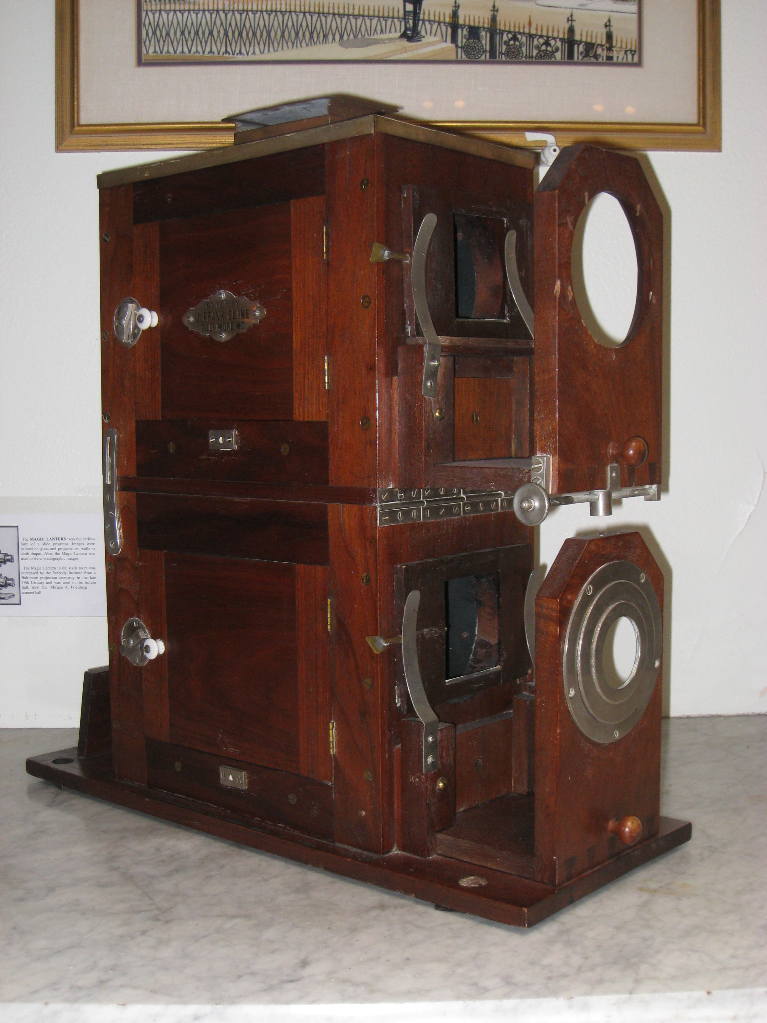 Magic lantern (late 19th century) in the Peabody Institute, Baltimore, Maryland, USA. There were no prohibitions against photography in the institute. I took this photograph.